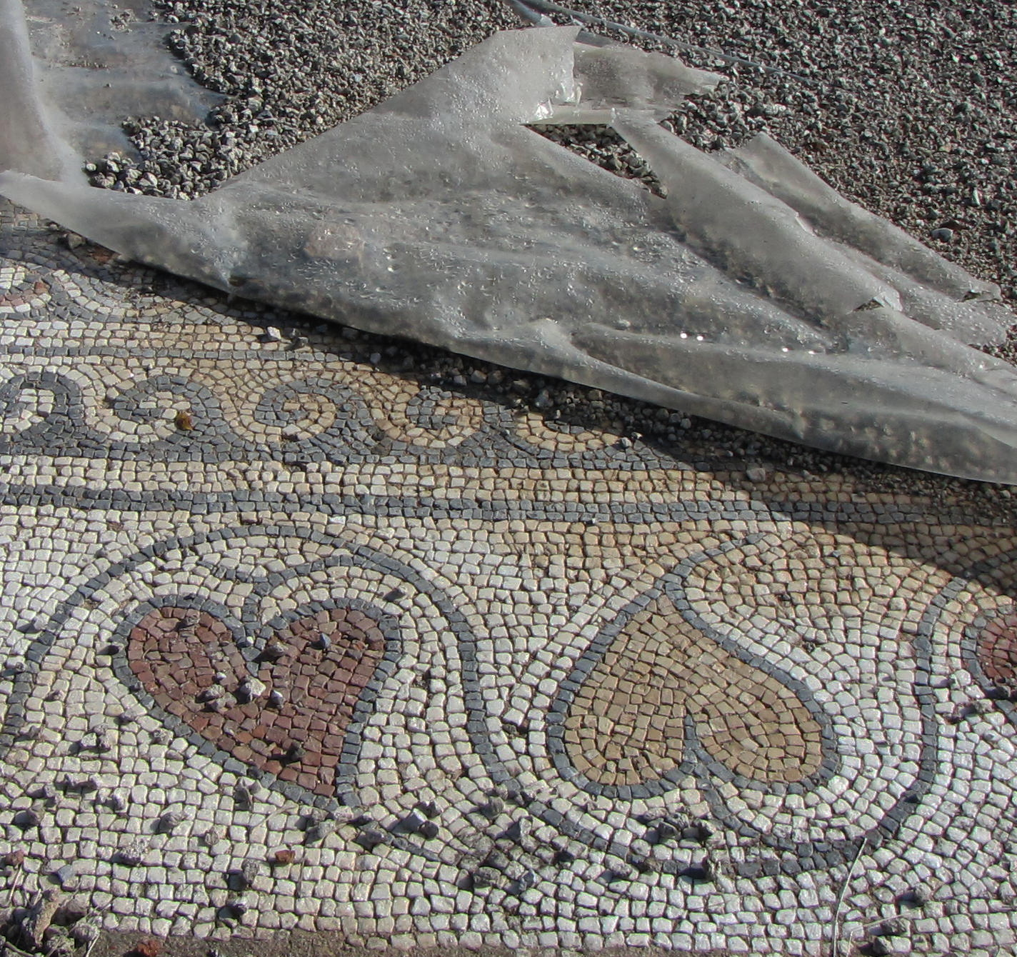 Amphipolis Mosaic